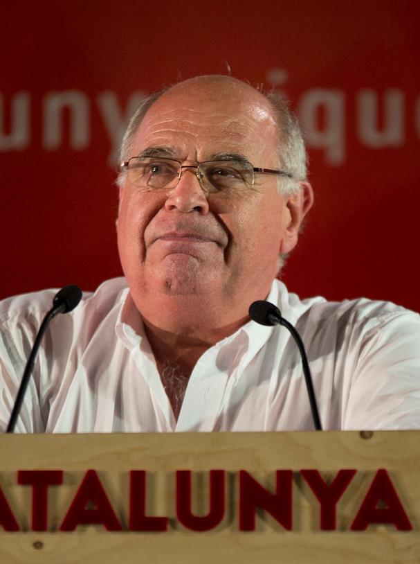 25 SEPT HOSPITALET acto final-83